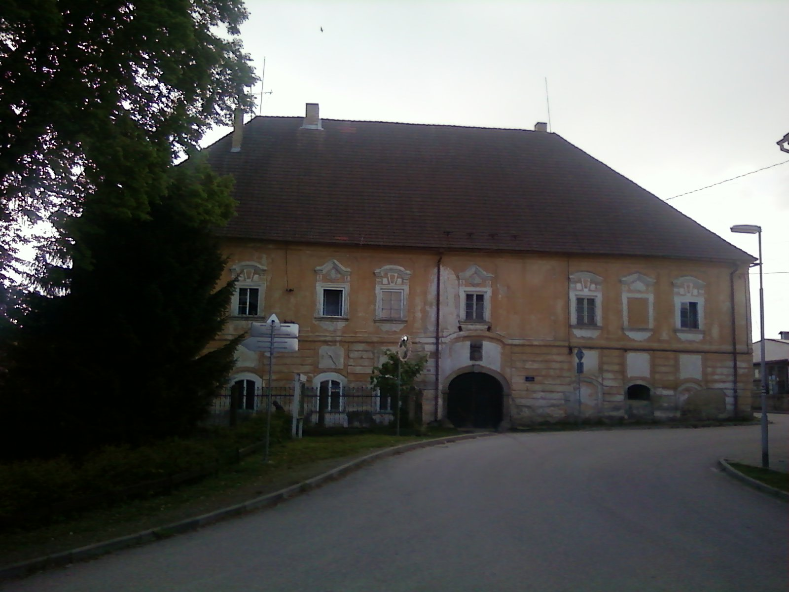 stav zámku v roce 2013